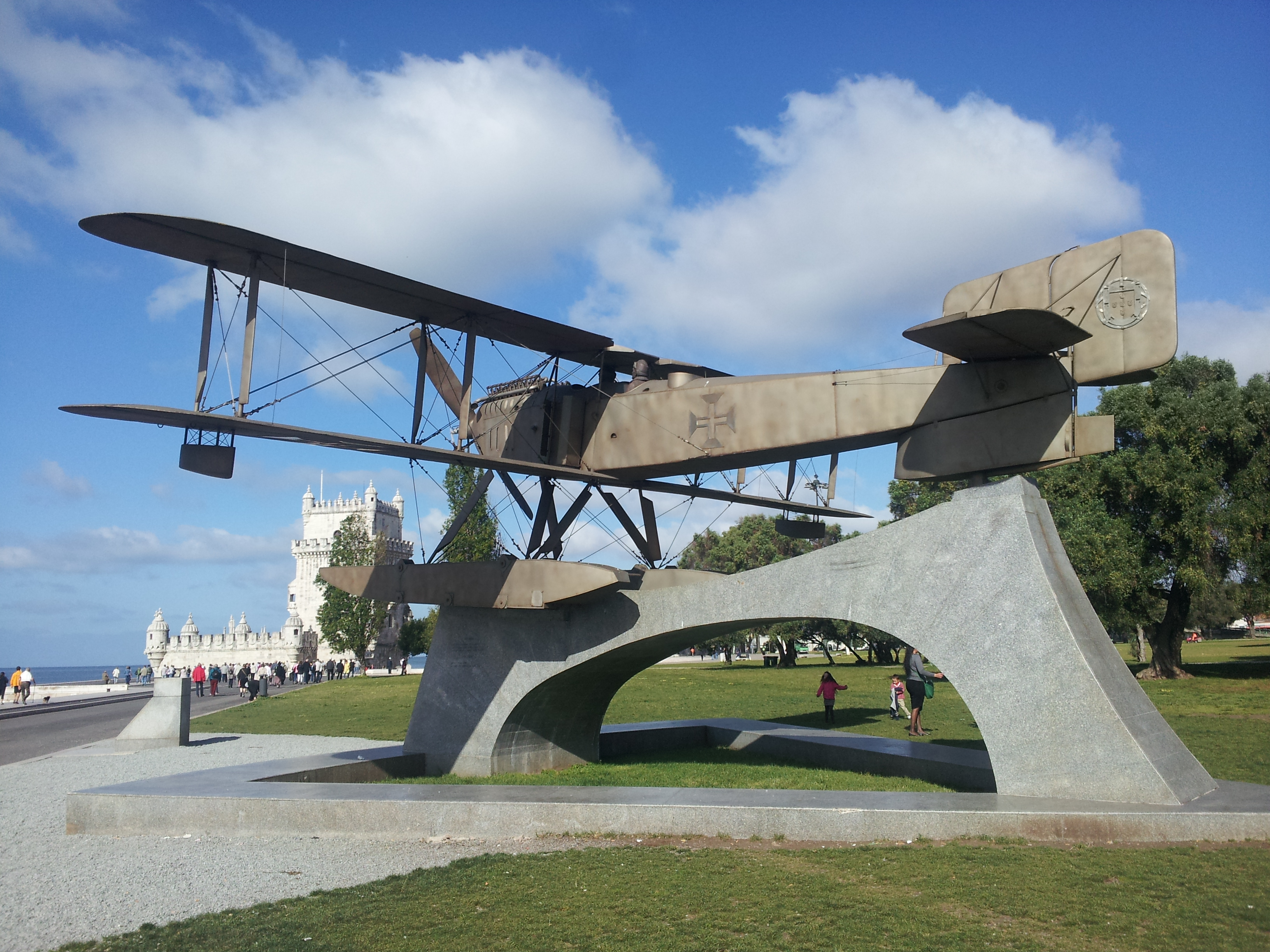 First South TransAtlantic flight monument in Lisbon